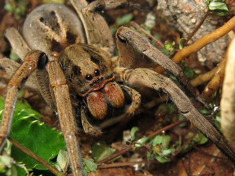 Female wolf spider